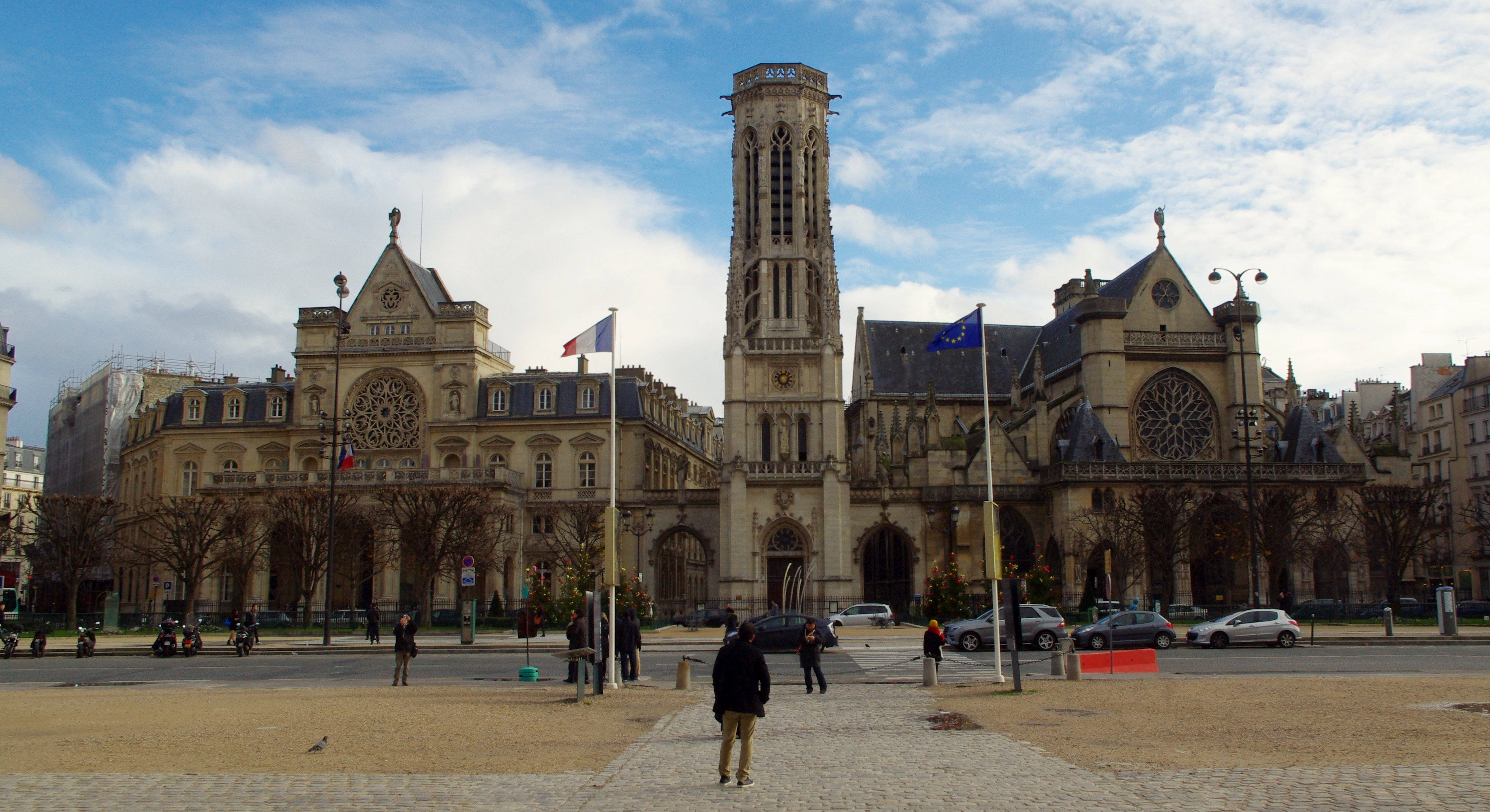 Town hall of Paris Ier arrondissement and Saint-Germain l'Auxerrois, Paris.